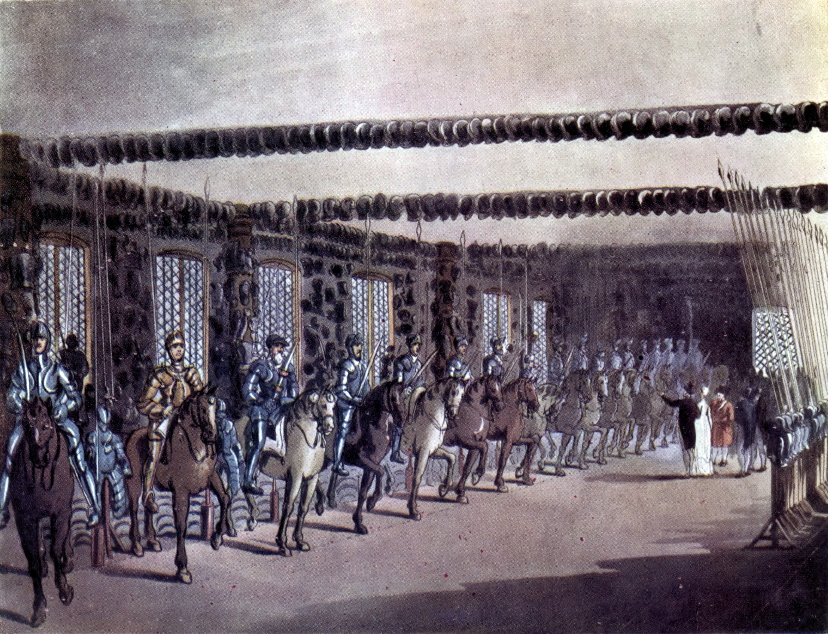 Horse Armoury, Tower